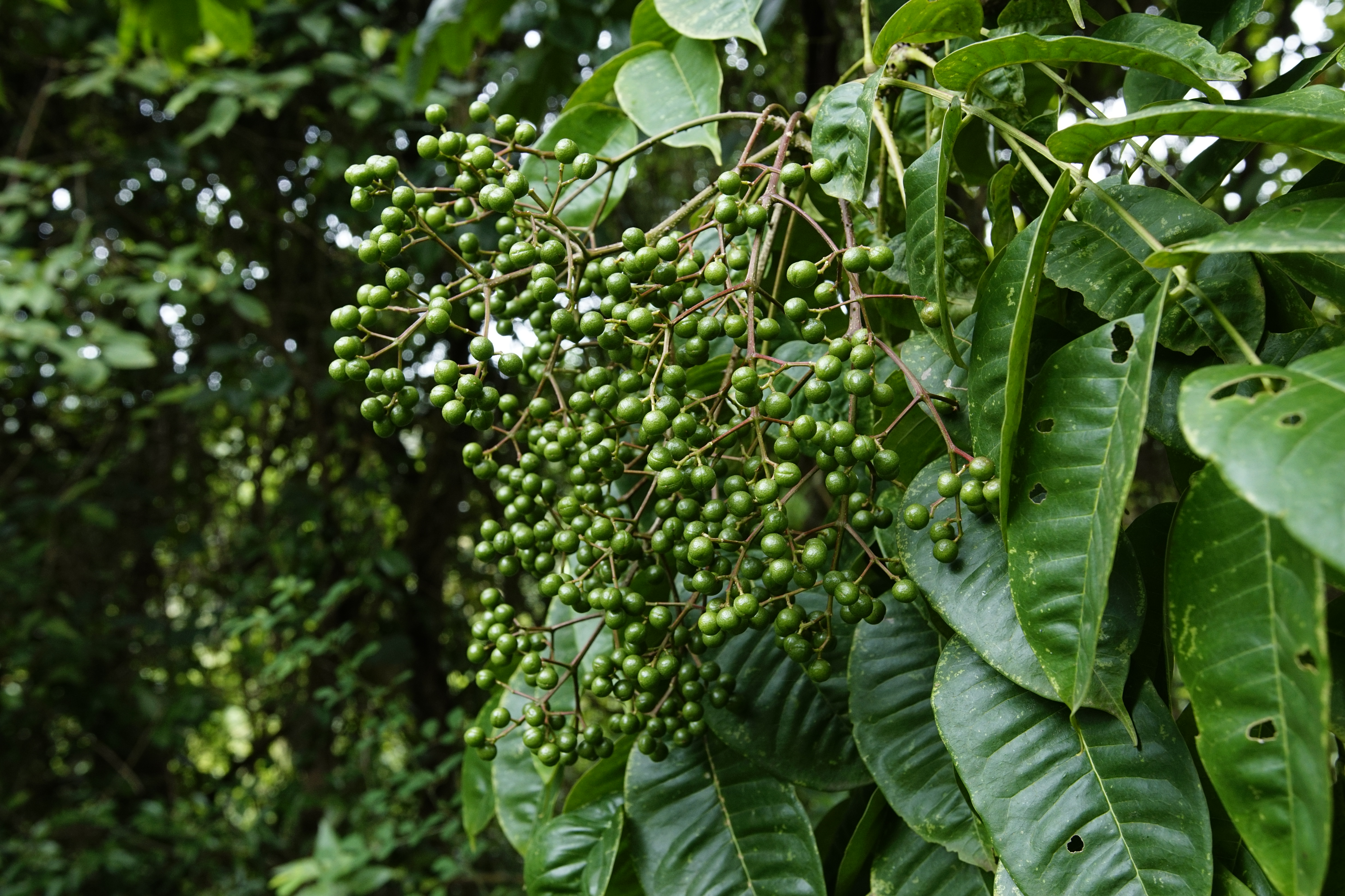 Zanthoxylum rhetsa